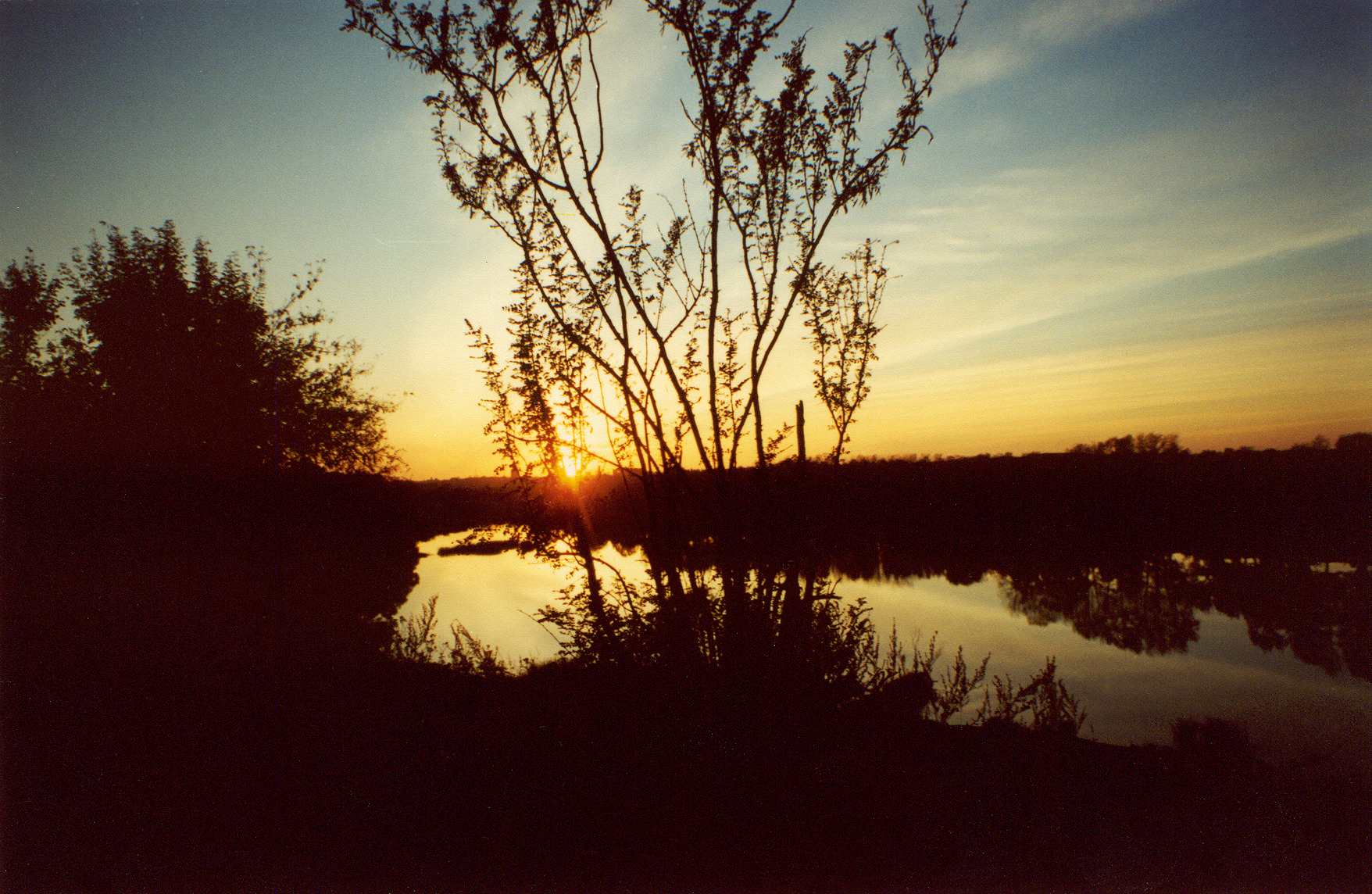 Sunset on Teza River in Shuya, Russian Federation. Photo by Rusudan Kharadze, 20 October 2000.